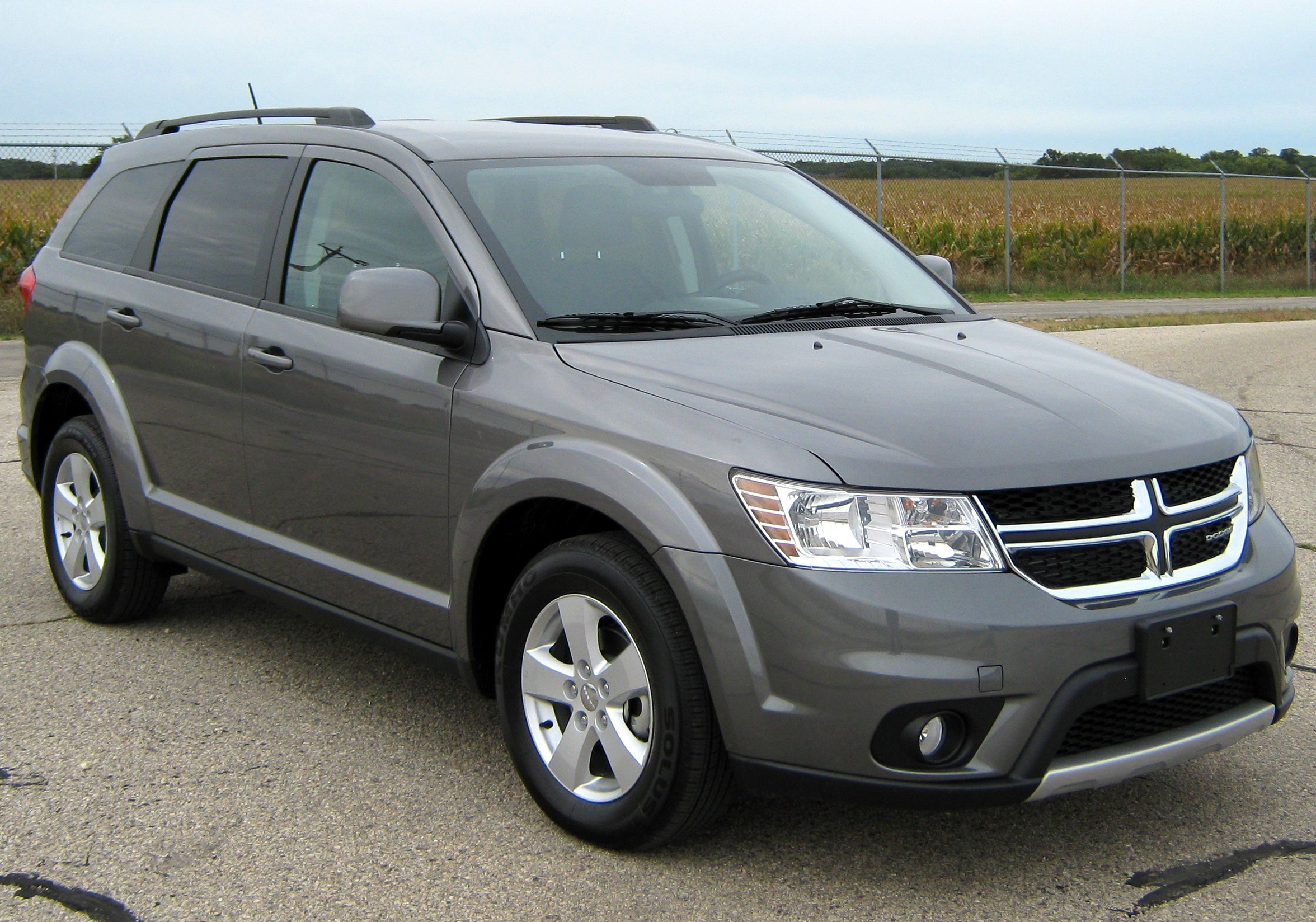 2012 Dodge Journey SXT photographed in USA.